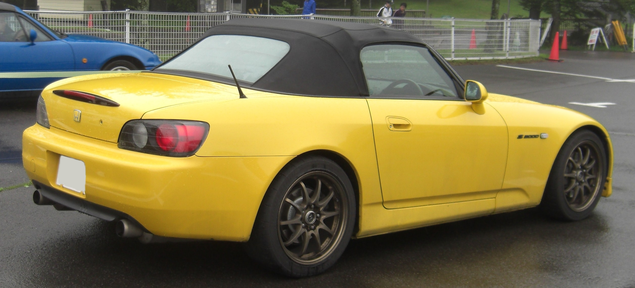 Honda S2000